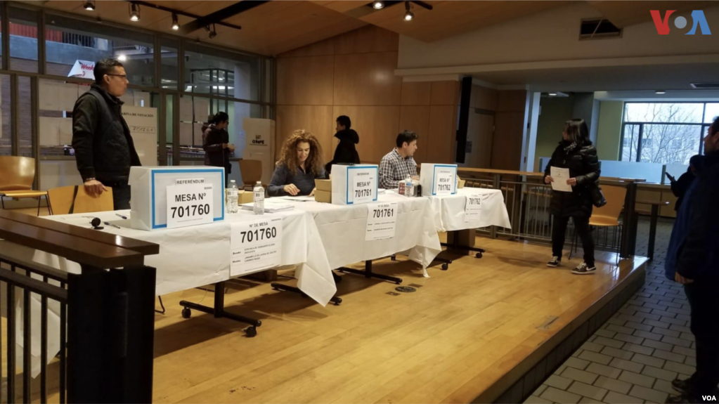 Peruvian citizens living in the United States take part of the constitutional referendum on 9th of December 2018 at the Peruvian Embassy in Washington D.C .